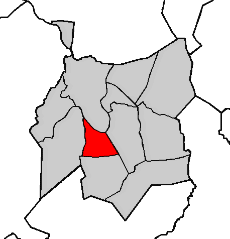 Location of the parish of Meixigo in the municipality of Cambre (Galicia, Spain)